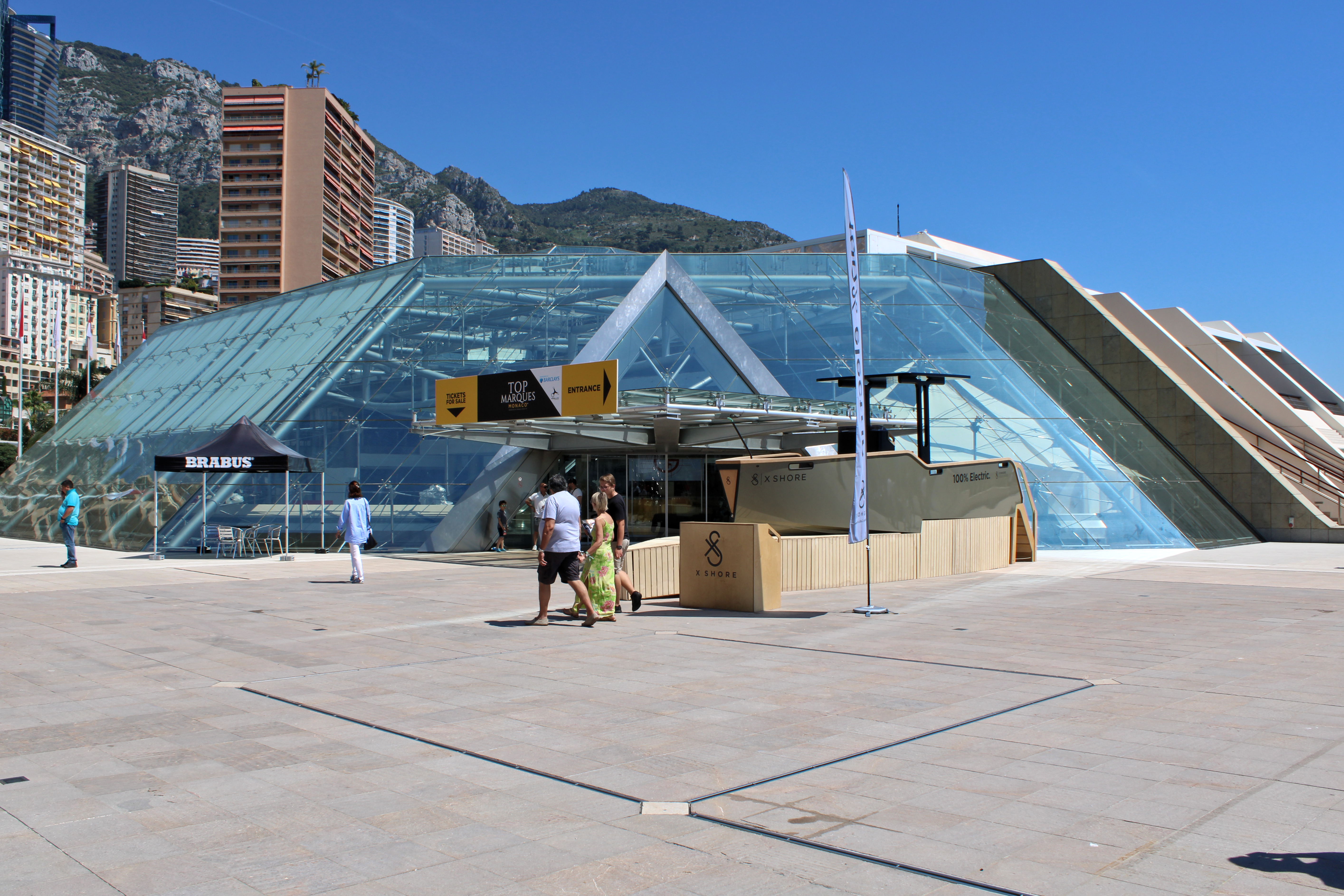 Grimaldi Forum at Top Marques 2019